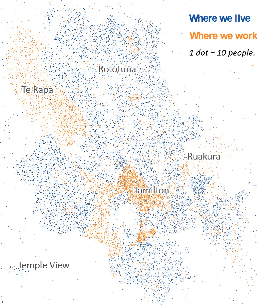 2018 census Hamilton living and working